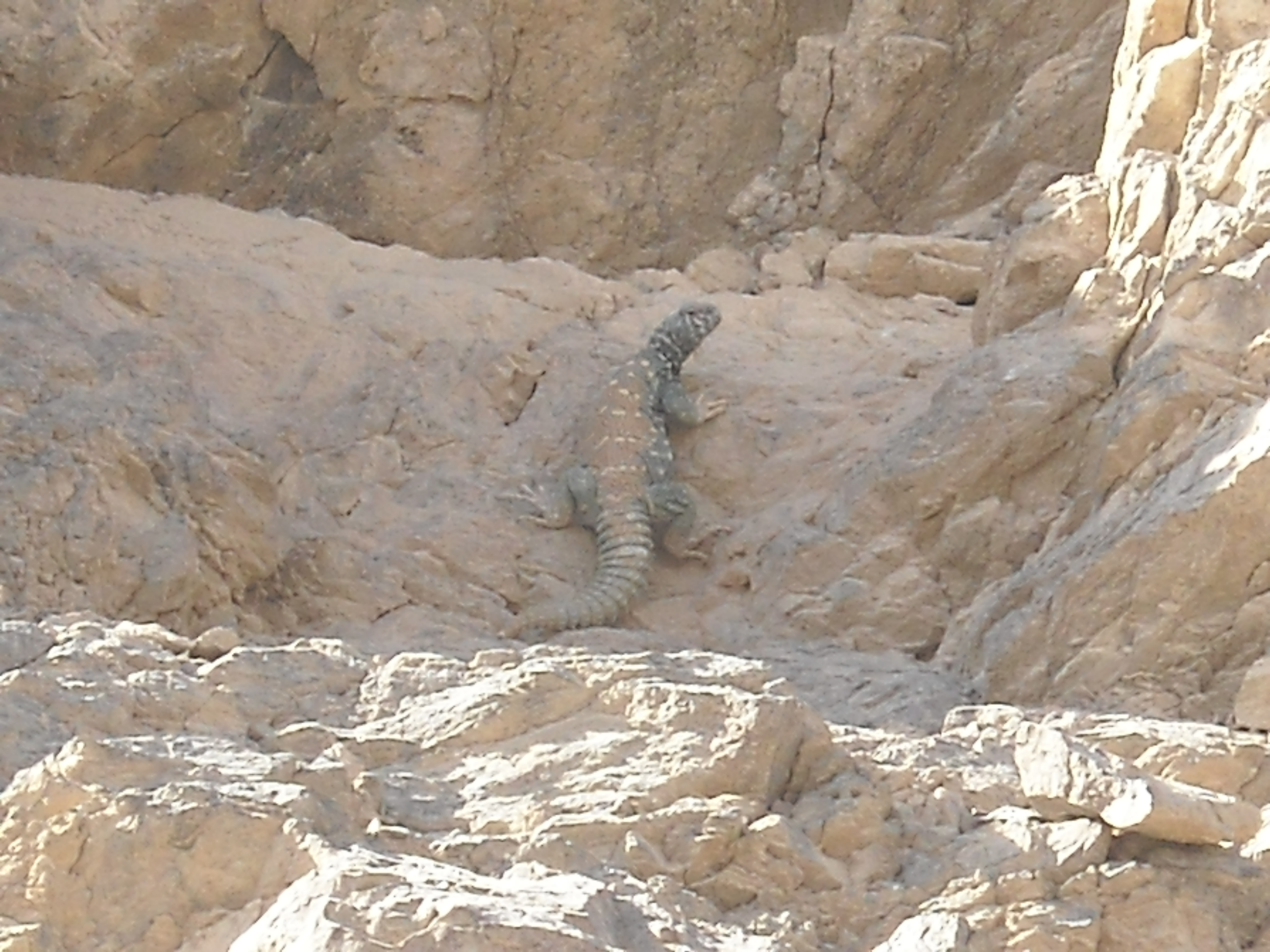 Uromastyx ornata in eilat, israel